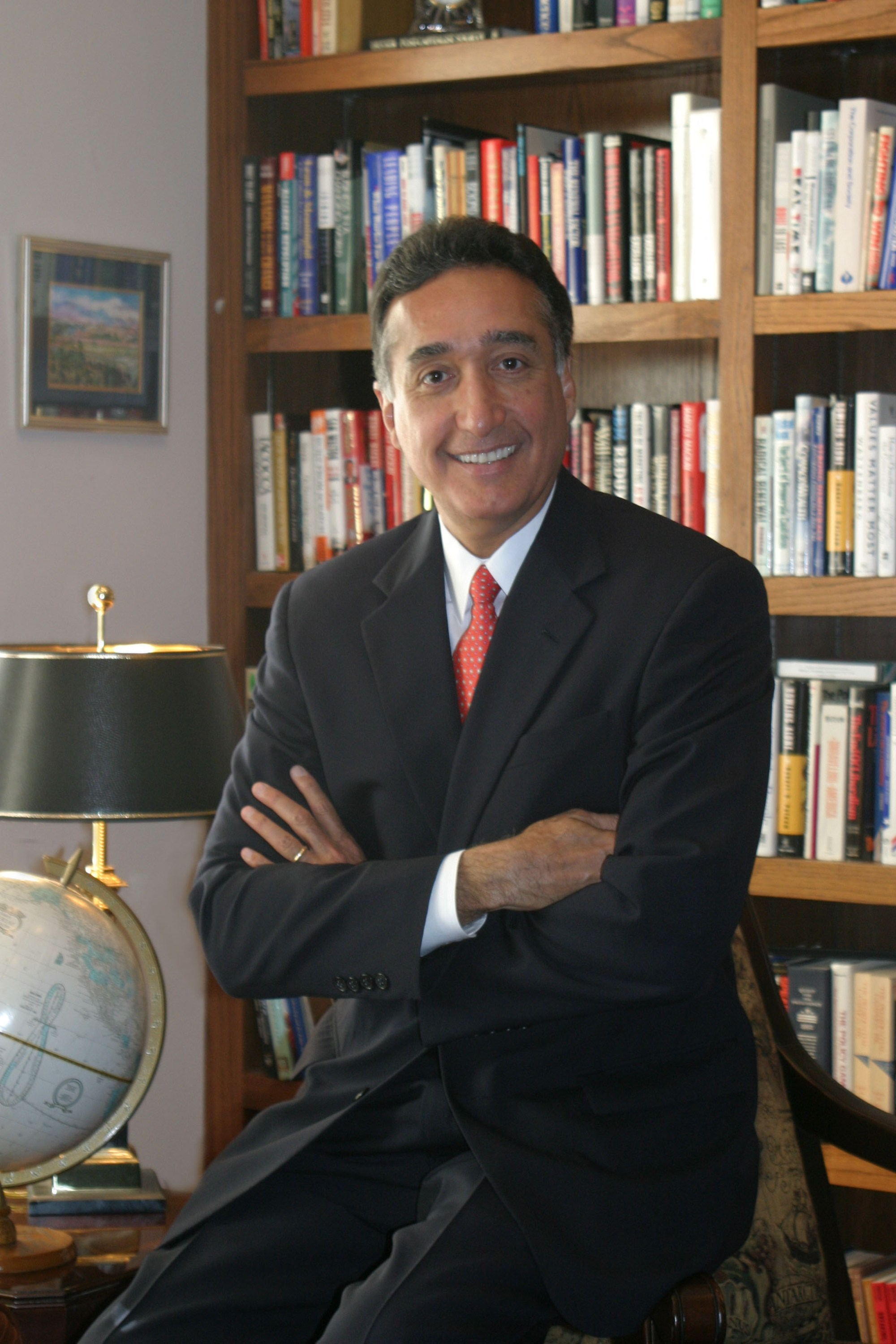 Current 2009-12-21 publicity photo of Henry Cisneros.